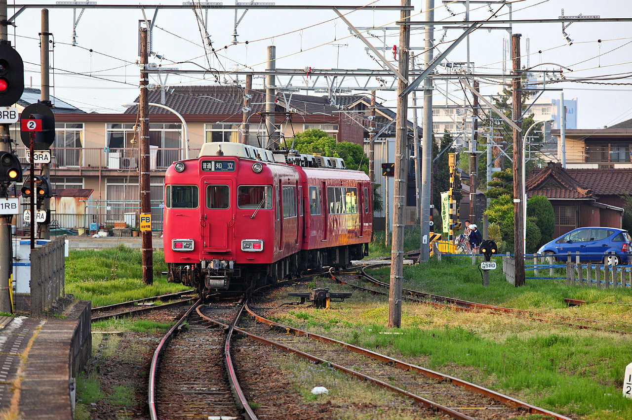 Hekinan Station Sta. of Meitetsu Mikawa Line